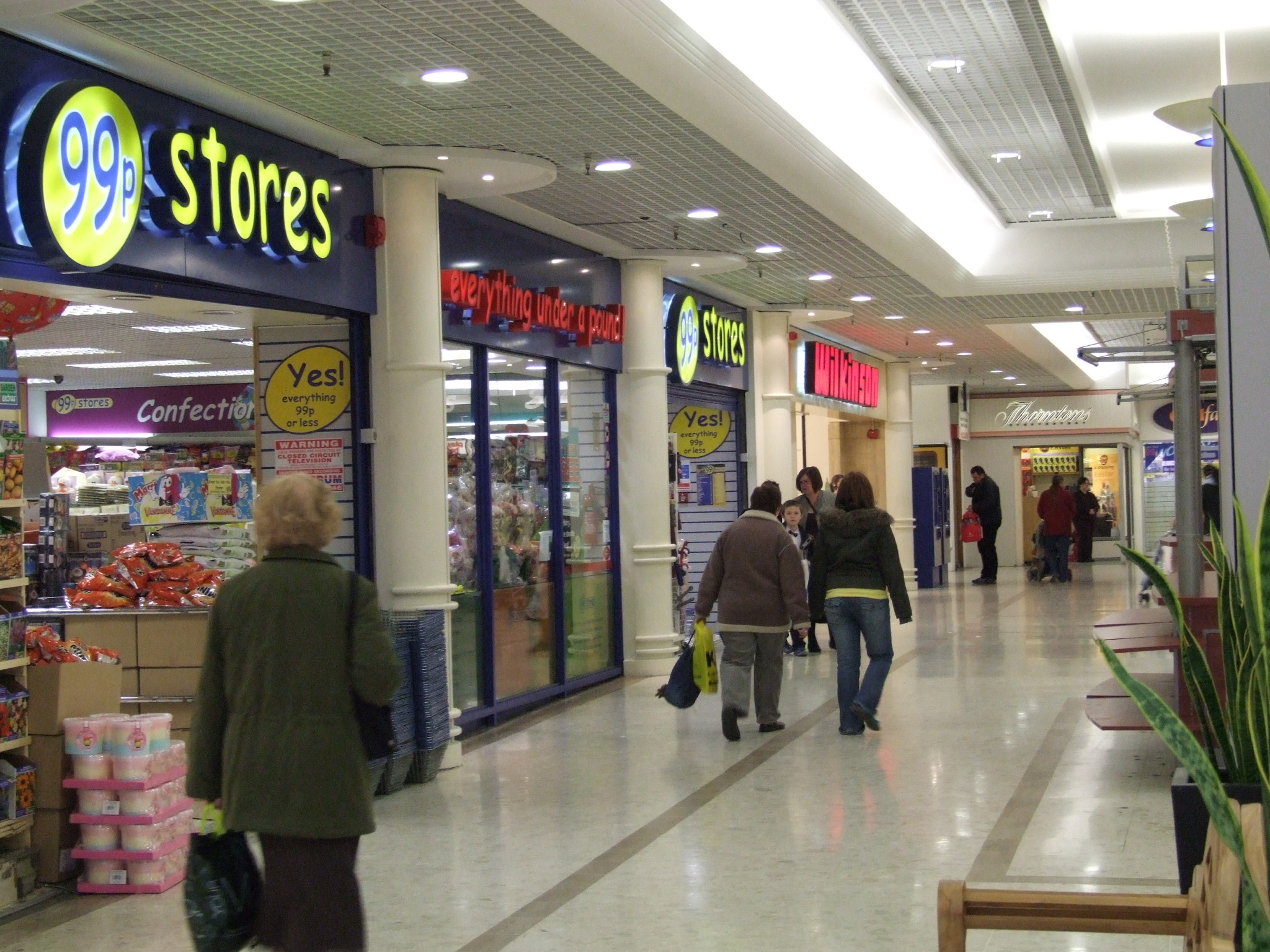 Priory Shopping Centre on Spittal St, Lowfield St in Dartford towncentre.